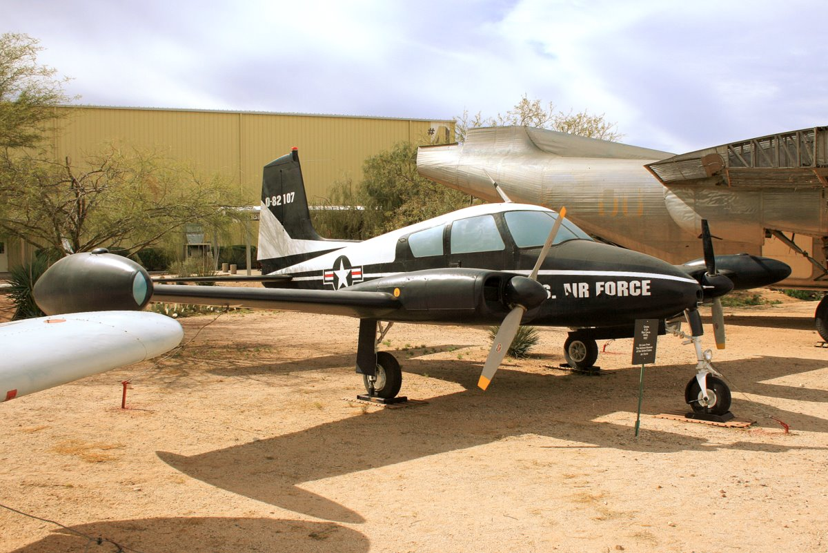 An ex-United States Air Force Cessna U-3A military variant of the Cessna 310 preserved at the Pima Air and Space Museum in Tucson, Arizona.